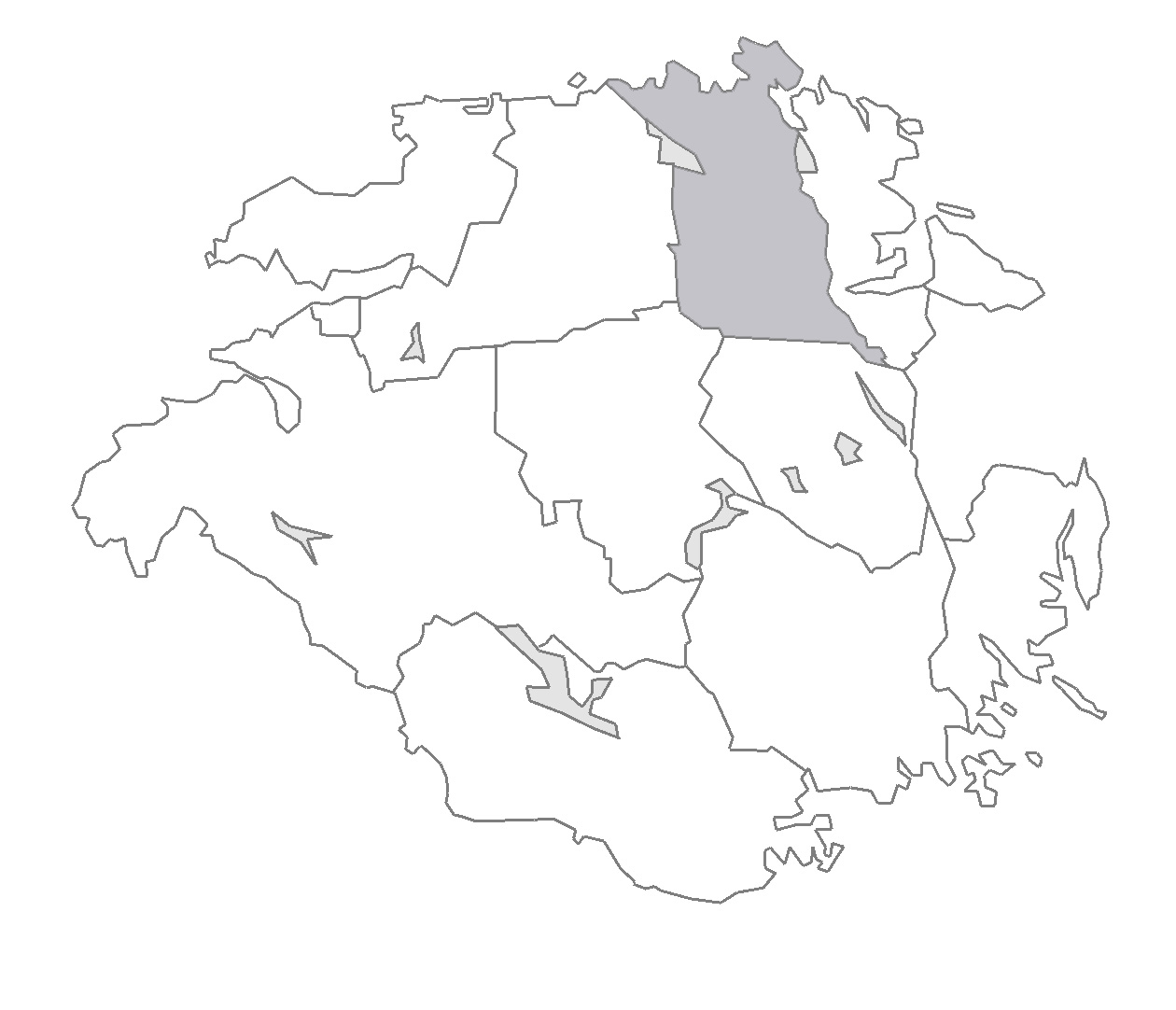 Map describing the location of Åker Hundred in Södermanland County, Sweden.